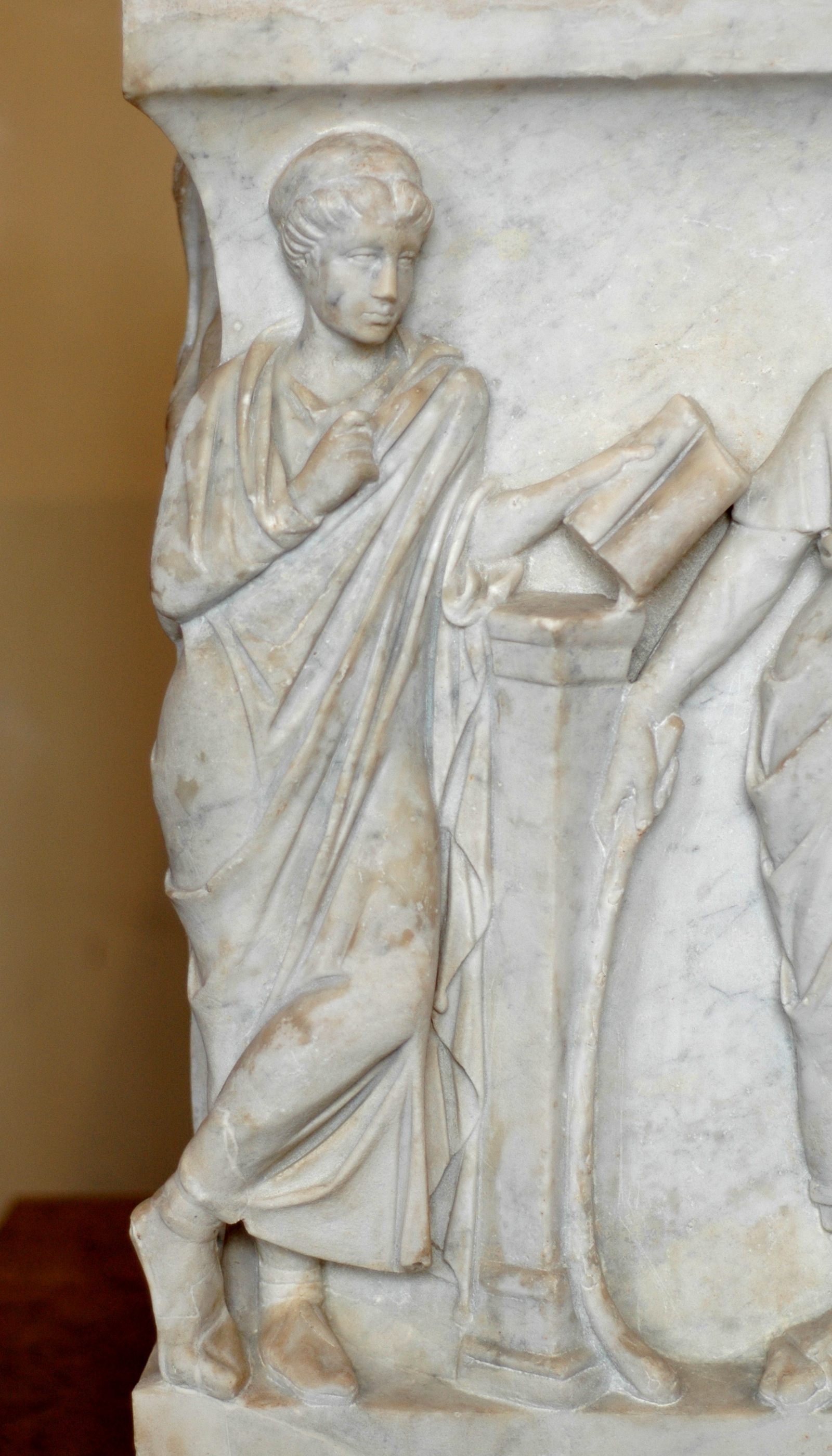 Calliope, muse of epic poetry, holding a volumen. Detail from the “Muses Sarcophagus”, representing the nine Muses and their attributes. Marble, first half of the 2nd century AD, found by the Via Ostiense.